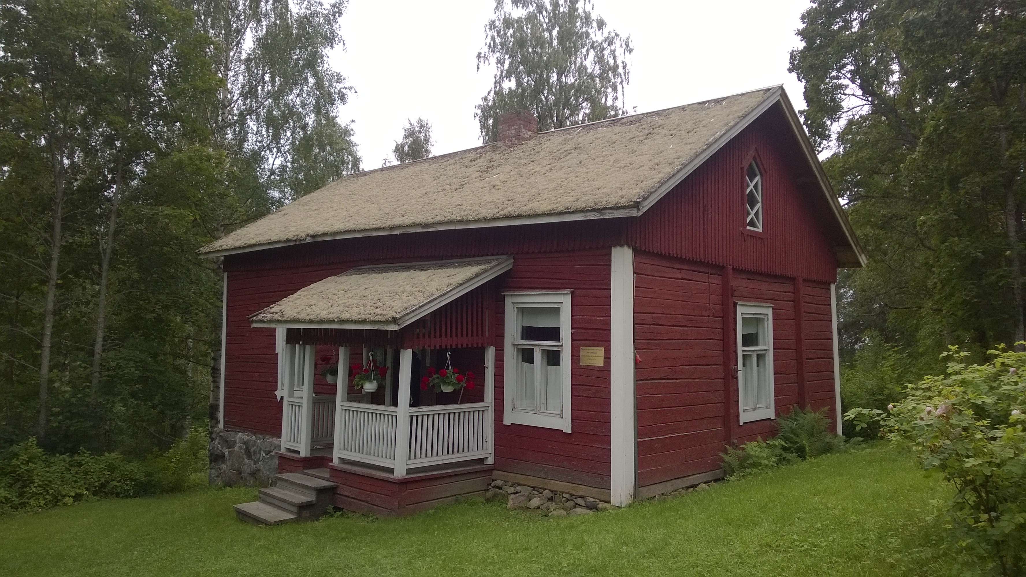 Putkinotko - Finnish writer Joel Lehtonen's house in Savonlinna.